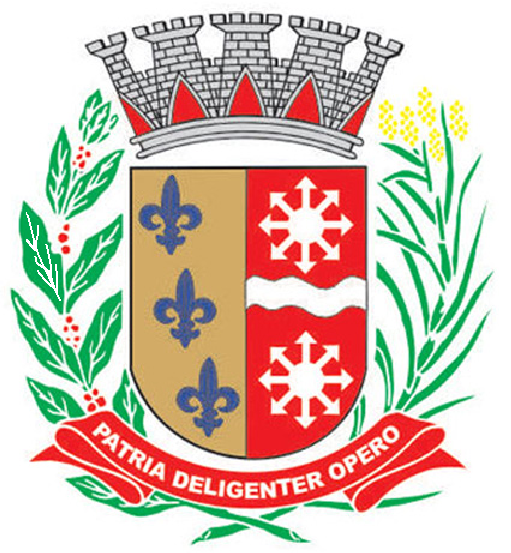 (Brasão do município de Nhandeara, estado de São Paulo, Brasil. Fonte: página da prefeitura. Coat of Arms of the city of Patrocínio Paulista, São Paulo state, Brazil. Based on the municipal website; Emerson This work is in the public domain in Brazil for one of the following reasons: It is a work published or commissioned by a Brazilian government (federal, state, or municipal) prior to 1983.(Law 3071/1916, art. 662; Law 5988/1973, art. 46; Law 9610/1998, art. 115) It is the text of a treaty, convention, law, decree, regulation, judicial decision, or other official enactment.(Law 9610/1998, art. 8) )